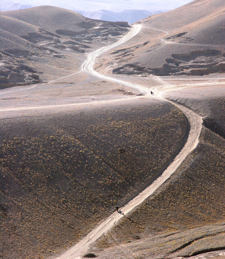 Popular Route through Mountains of Bamiyan.